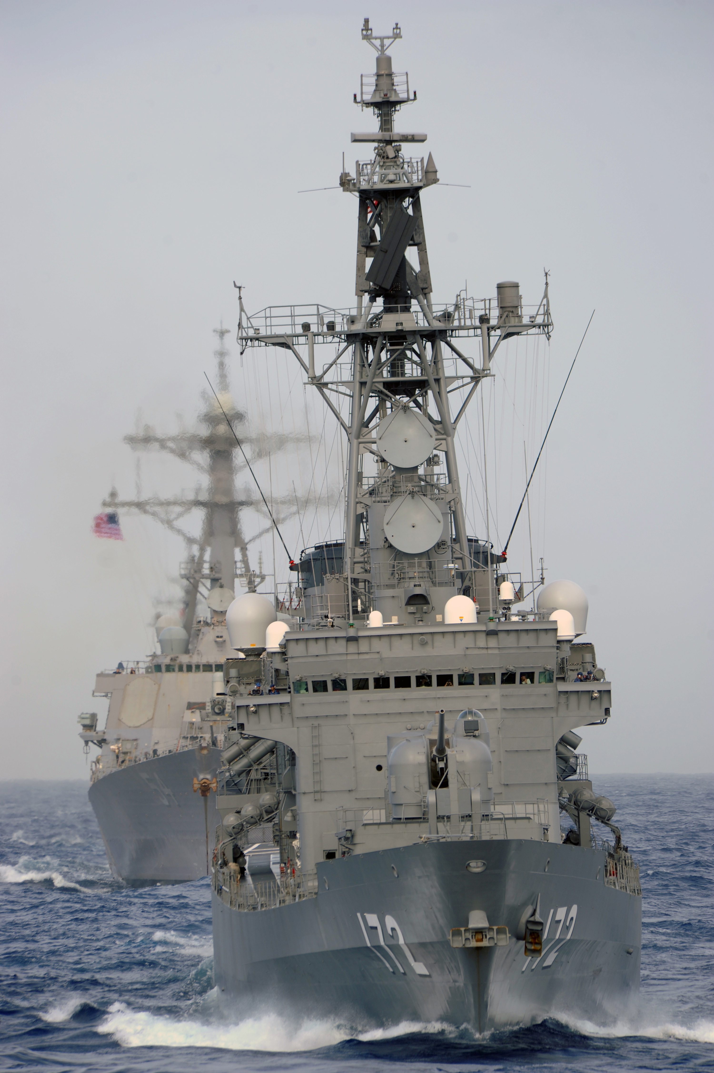 PACIFIC OCEAN (Nov. 4, 2011) Japan Maritime Self-Defense Force destroyer JS Shimakaze (DDG 172) transits in formation with U.S. Navy and Japan Maritime Self-Defense Force ships during Annual Exercise 2011. Annual Exercise is a bi-lateral field training exercise designed to practice and evaluate the coordination procedures and interoperability elements required to respond to the defense of Japan and the Asia-Pacific region. (U.S. Navy photo by Mass Communication Specialist Seaman Alysia R. Hernandez/Released)